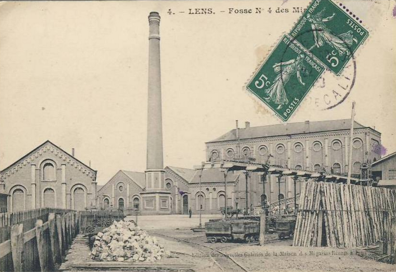 Coalpit n° 4, Compagnie des mines de Lens, Lens, Pas-de-Calais, France.